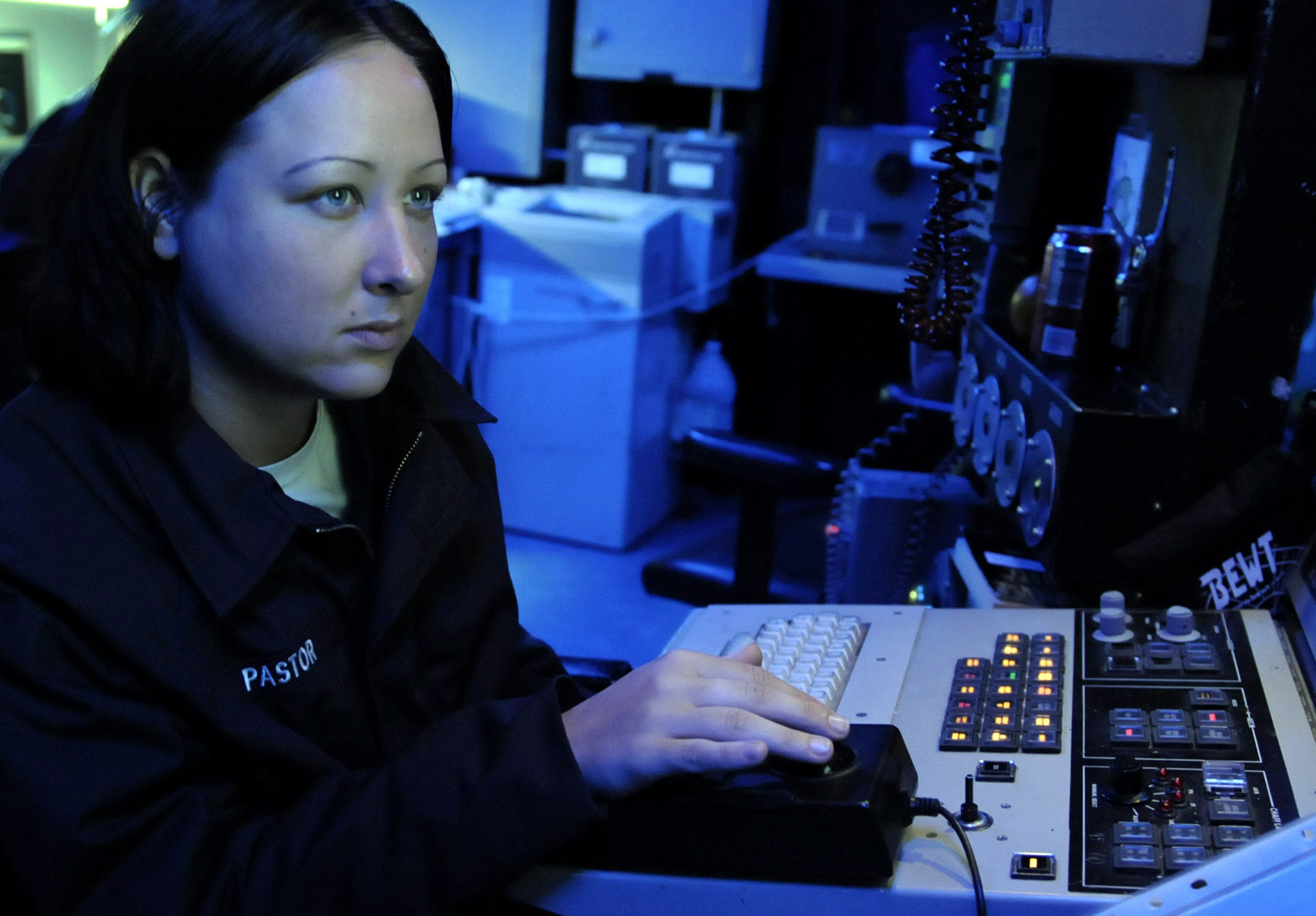 PACIFIC OCEAN (Oct. 19, 2009) Cryptologic Technician (Technical) Seaman Jennifer Pastor stands watch at the AN/SLQ-32A(V) Surface Electronic Support/Electronic Attack (ES/EA) console in the Combat Information Center (CIC) aboard the amphibious command ship USS Blue Ridge (LCC 19). The SLQ-32 or "slick thirty-two" is an anti-ship-missile-defense (ASMD) system. Blue Ridge is the flagship for Commander, U.S. 7th Fleet. (U.S. Navy photo by Mass Communication Specialist 2nd Class Cynthia Griggs/Released)